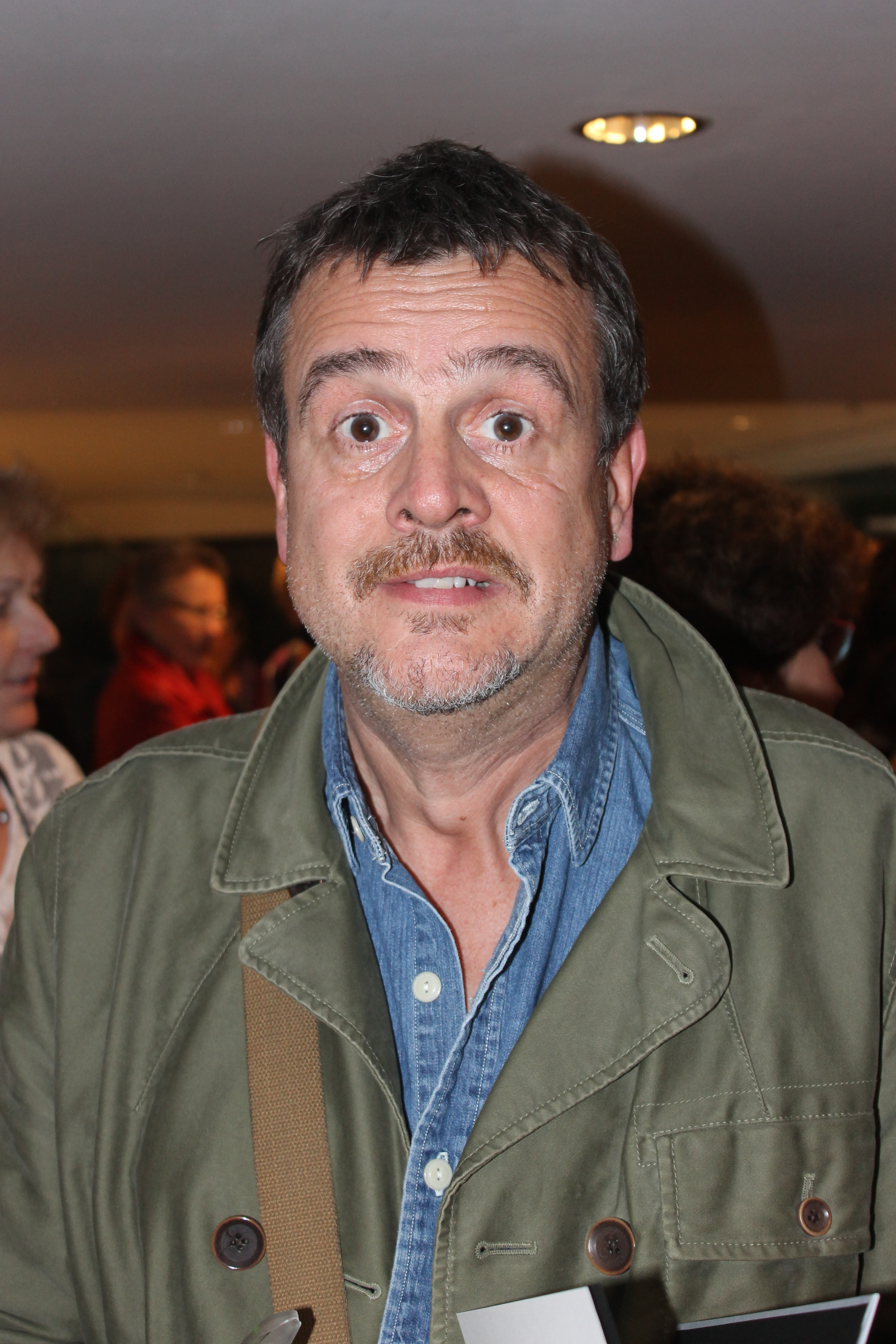 British author Mark Billingham at a crime fiction festival in Hagen, Germany, in October 2014.